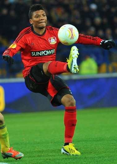 Antenor Junior Fernándes da Silva Vitoria